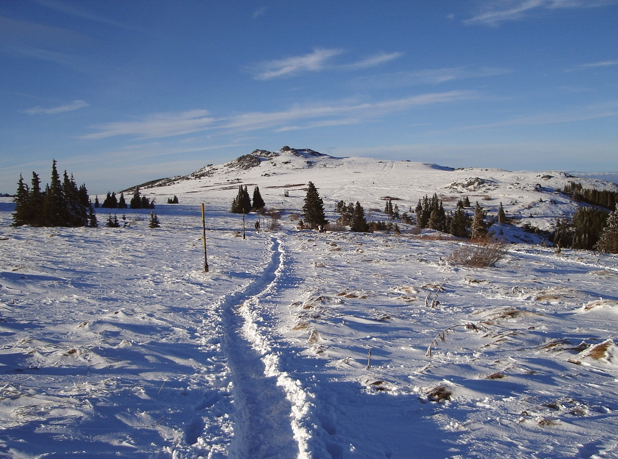 Ushite Peak from near Goli Vrah on Vitosha Mountain, Bulgaria. Photograph by Nikolay Rainov published in under Creative Commons license 2.5.